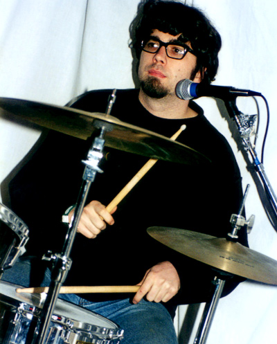 Eric Hedford performing with The Dandy Warhols at the 4th Street Basement in Santa Cruz, CA, in 1997.